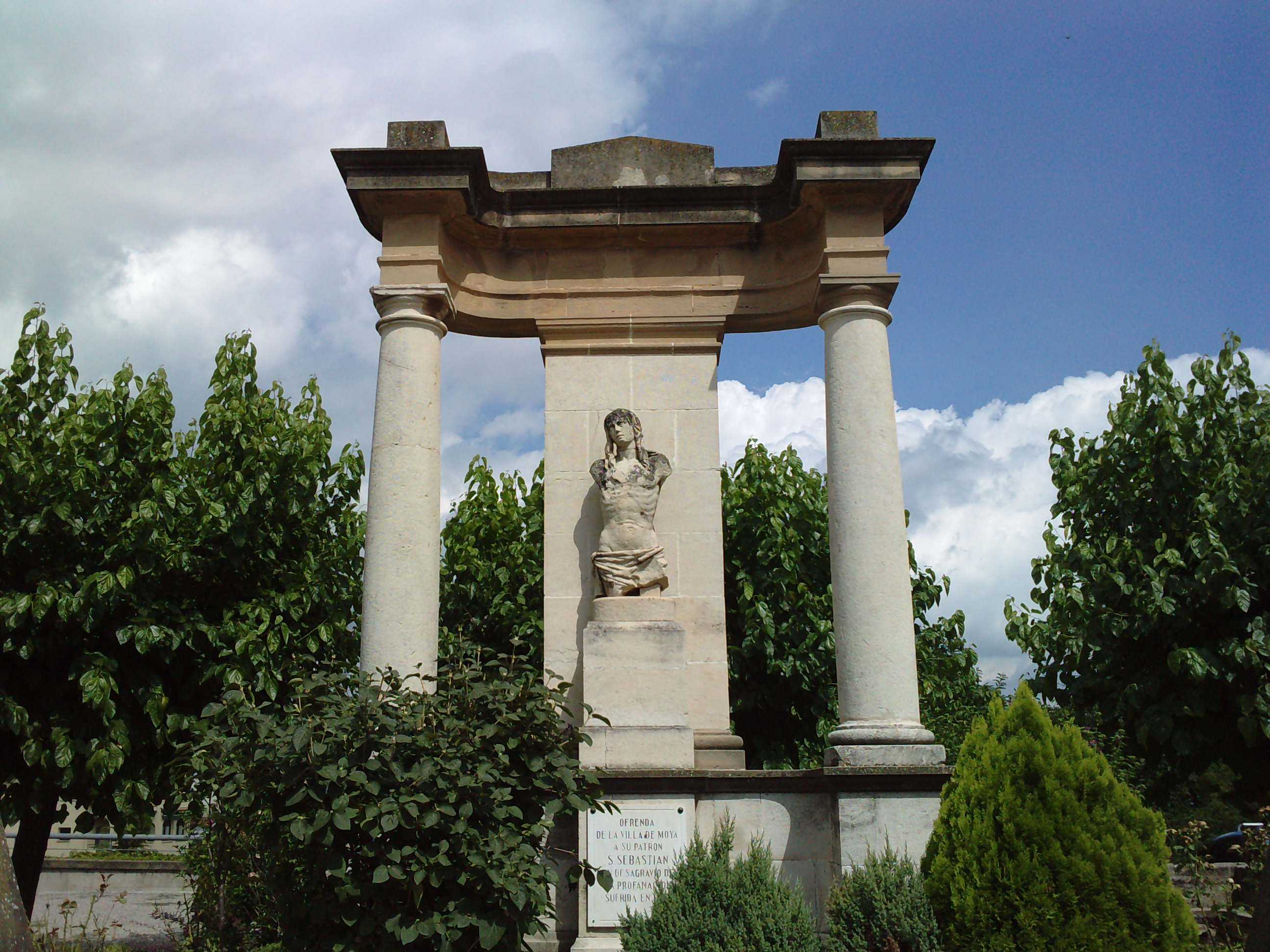 Major square of Moià, a village in Catalonia